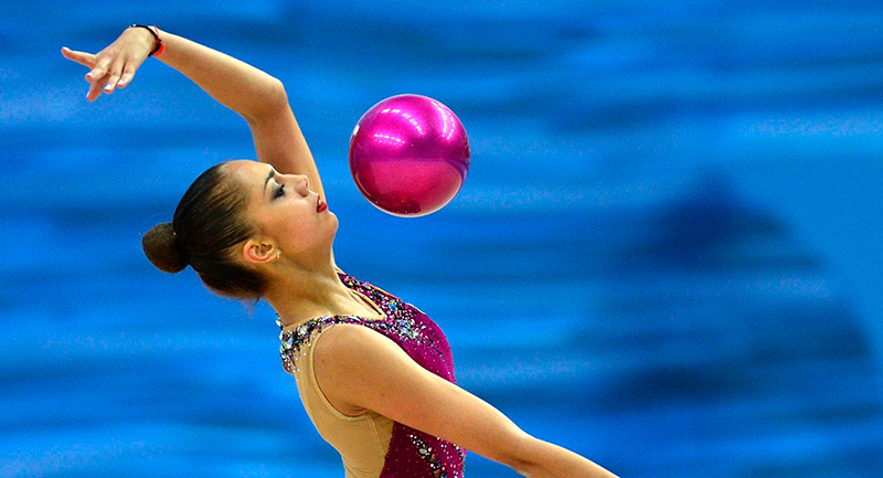 Russian rhythmic gymnast Margarita Mamun in 2014